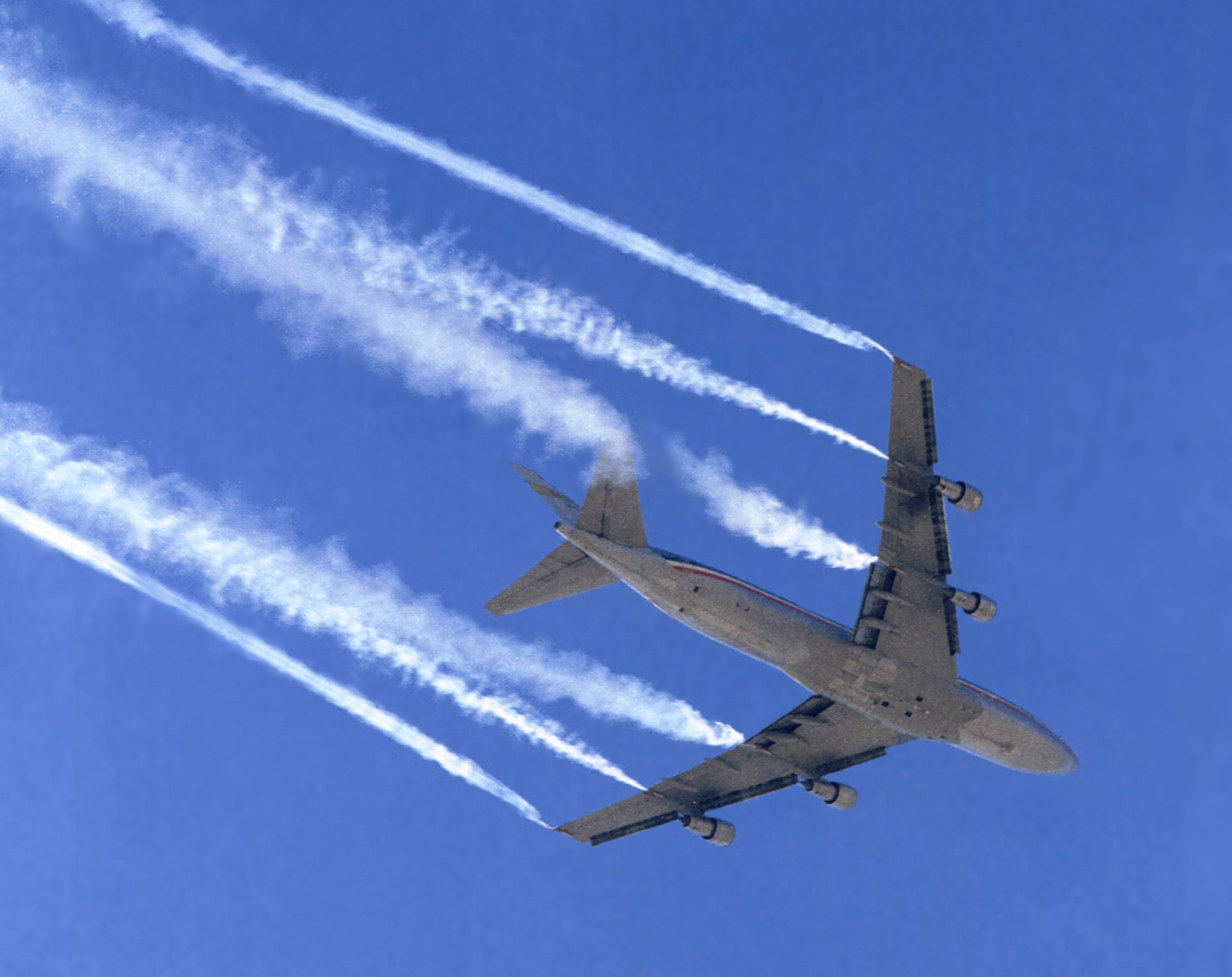 In this 1974 NASA Flight Research Center photograph, a Boeing B-747 jetliner (NASA 905) is shown taking part in the trailing wake vortex study. In the photograph, the two wing tip vortex trails, being the strongest, stay in tight cylindrical rolls. The "strength" of the vortices decreases toward the midspan of each wing, and the trails become less defined.